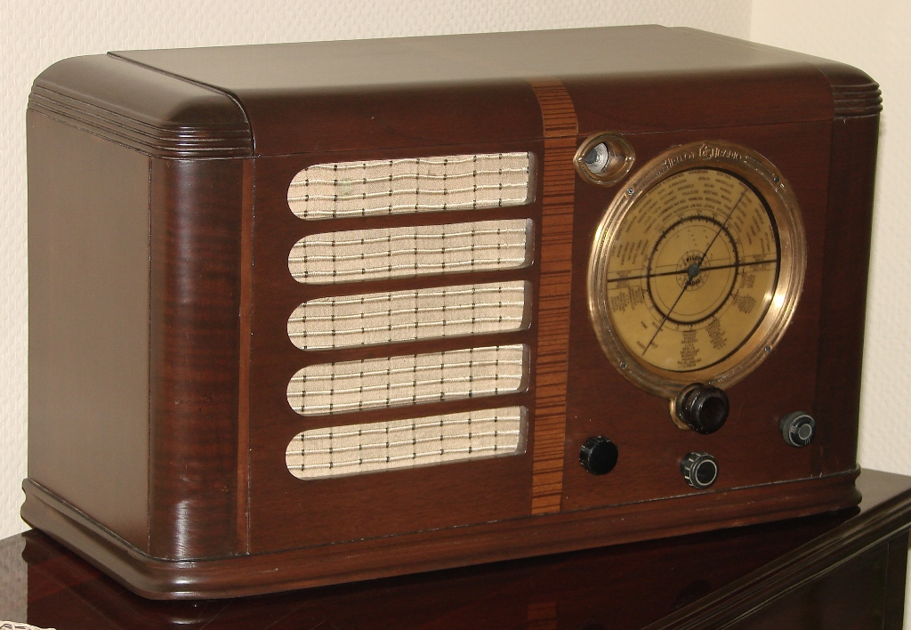 PILOT brand radio, made in USA in 1938 (22 cm x 53 cm x 30 cm)